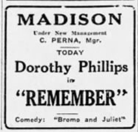 Madison Theater advertisement for the American film Remember (1926) - 19 Nov. 1927 Morning Call, Allentown PA